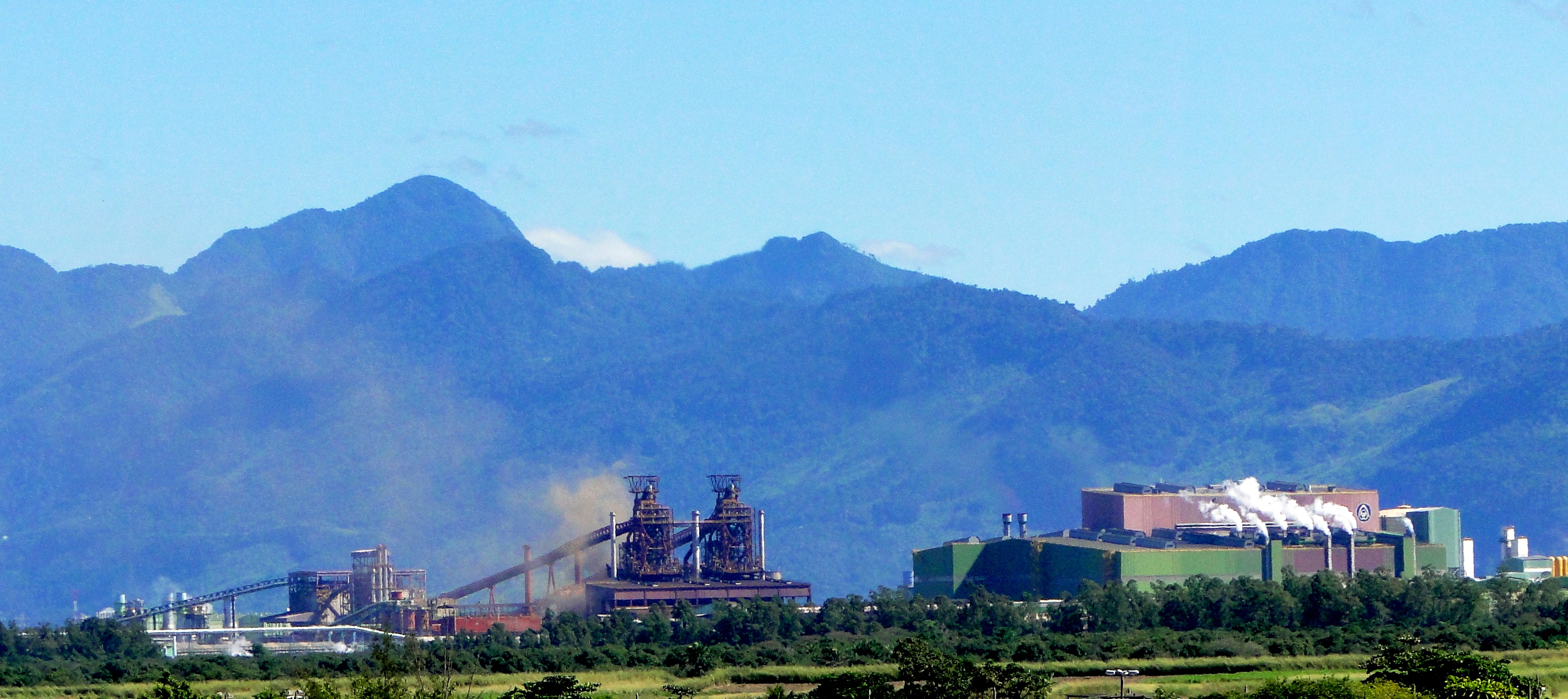 CSA Thyssenkrupp, Santa Cruz, Rio de Janeiro-RJ